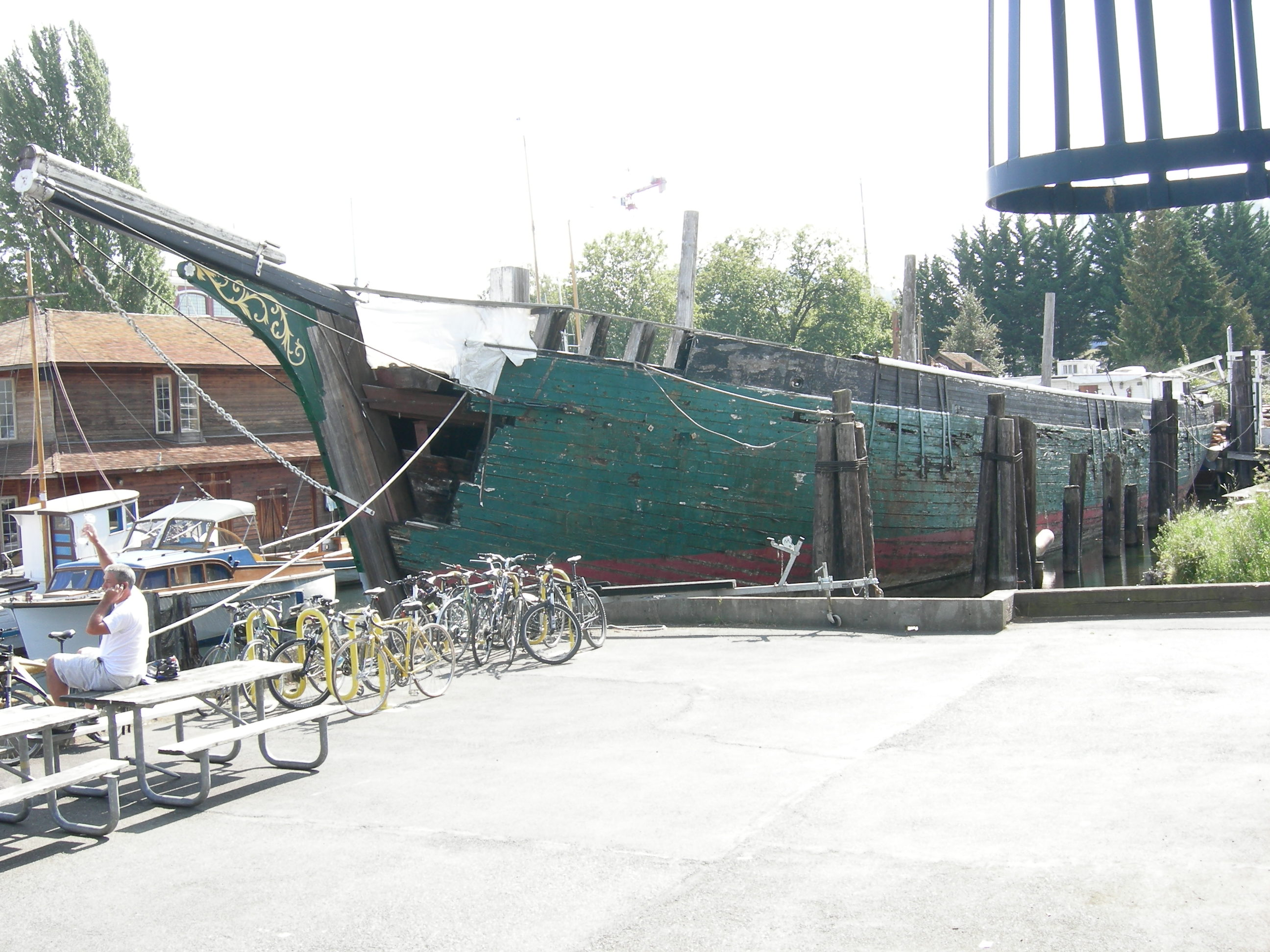 The schooner Wawona, Northwest Seaport, South Lake Union Park, Seattle, Washington, USA. Listed on the National Register of Historic Places, ID #70000643.